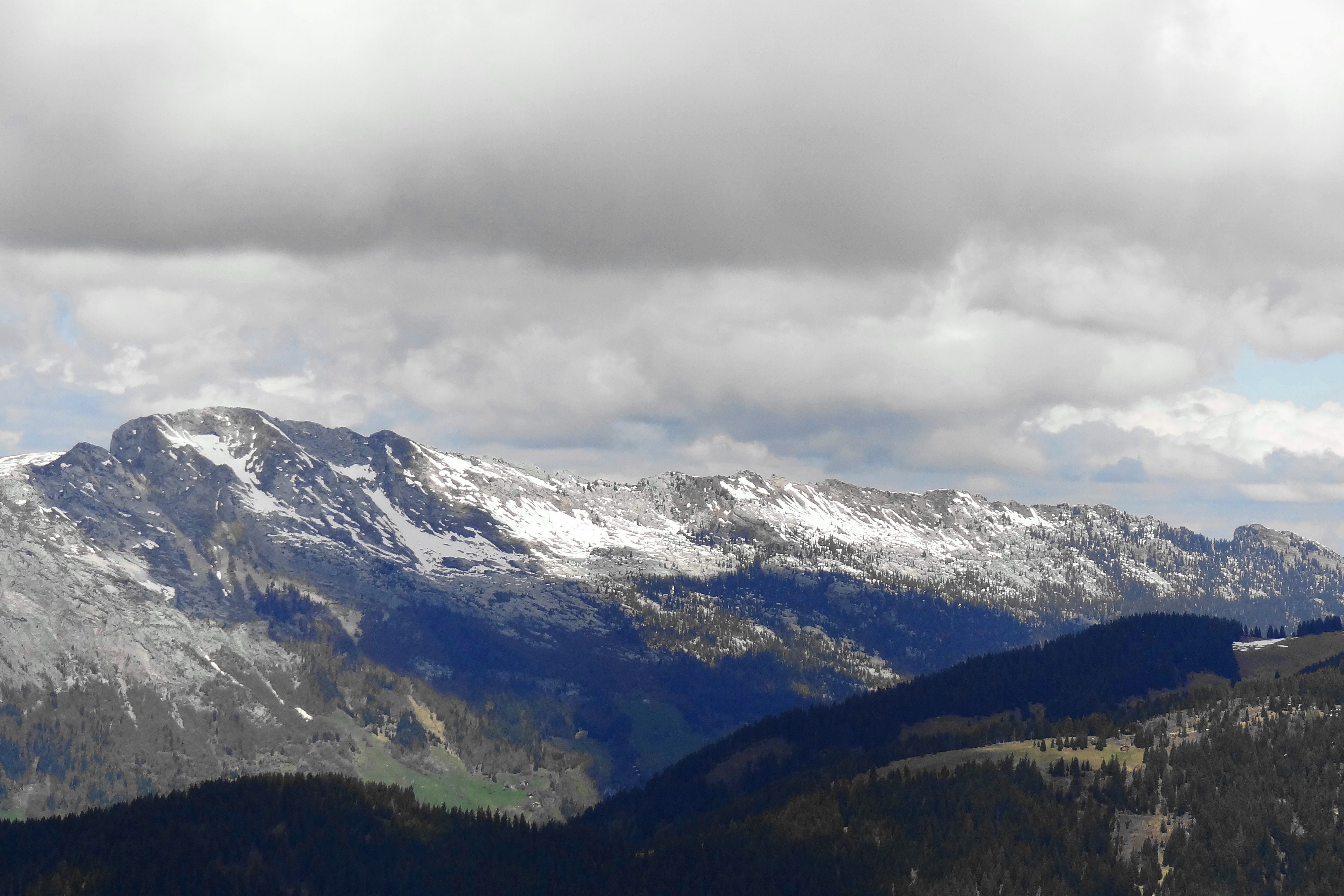 Mount Lachat (2023m), French Alps.